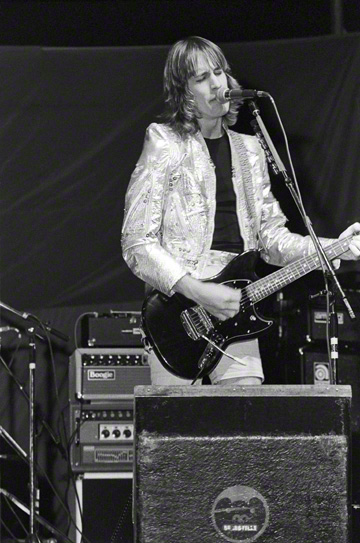 1978 Todd Rundgren